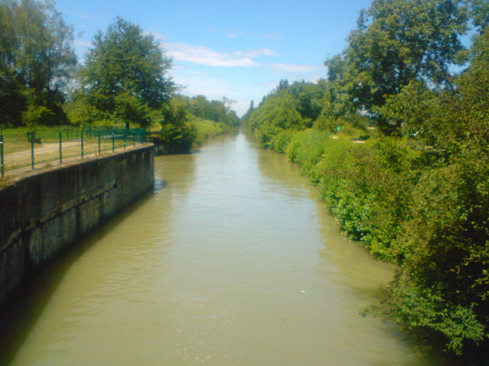 The canal of Huningue in Saint-Louis (Haut-Rhin)